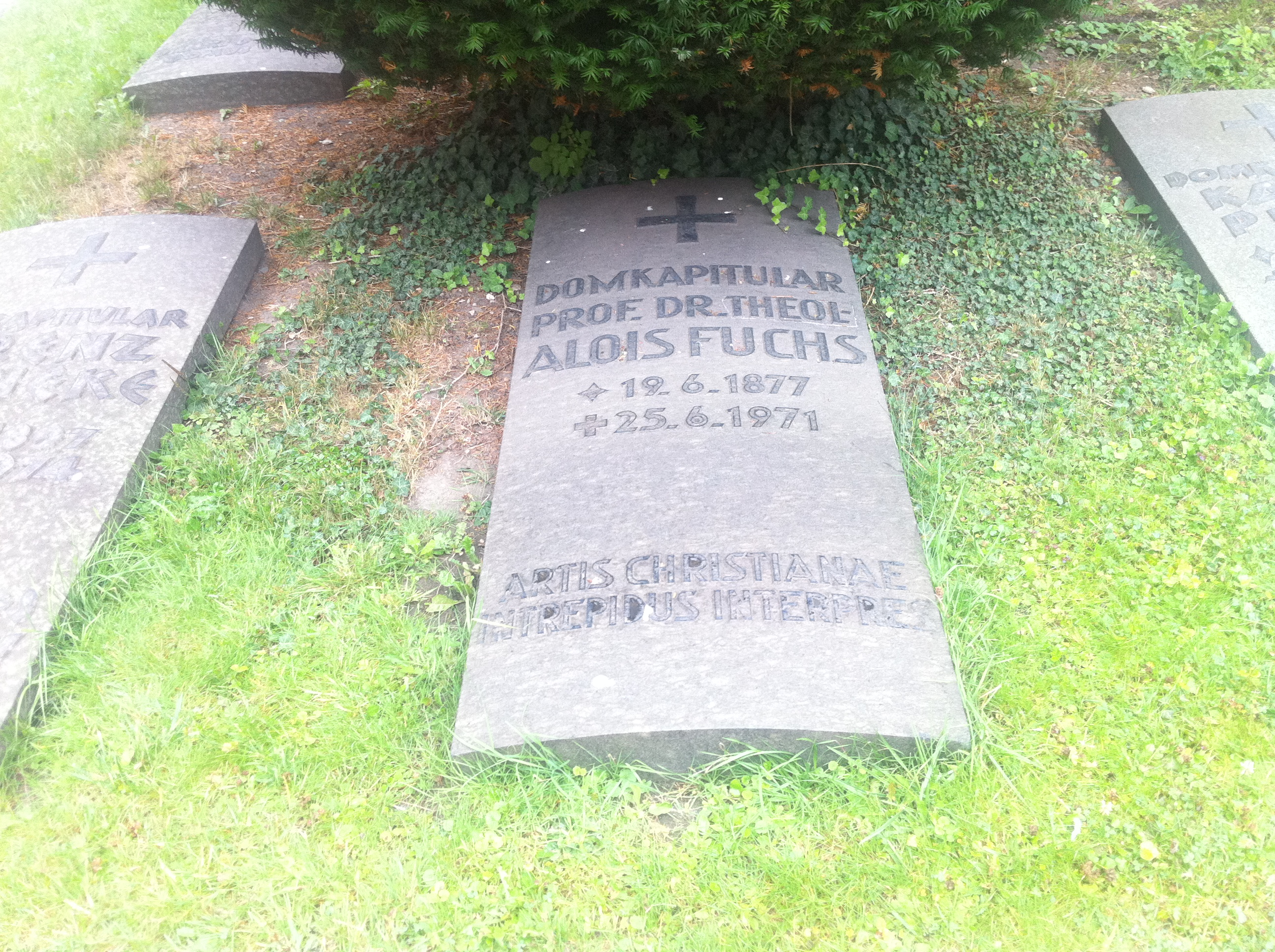 Tomb of Canon and Art Historian Prof. Alois Fuchs